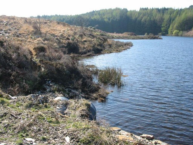 Llyn y Garnedd The south side of the lake is in this square.